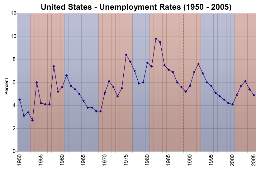 Unemployment rates in the United States (1950 - 2005). Background colors and dotted lines show the terms of U.S. presidents and their political party affiliation, to give more historical context. (Red = Republican, Blue = Democrat) Data source: [1] This is a raster, .png version of the original, higher quality Image:Us_unemployment_rates_1950_2005.svg file.